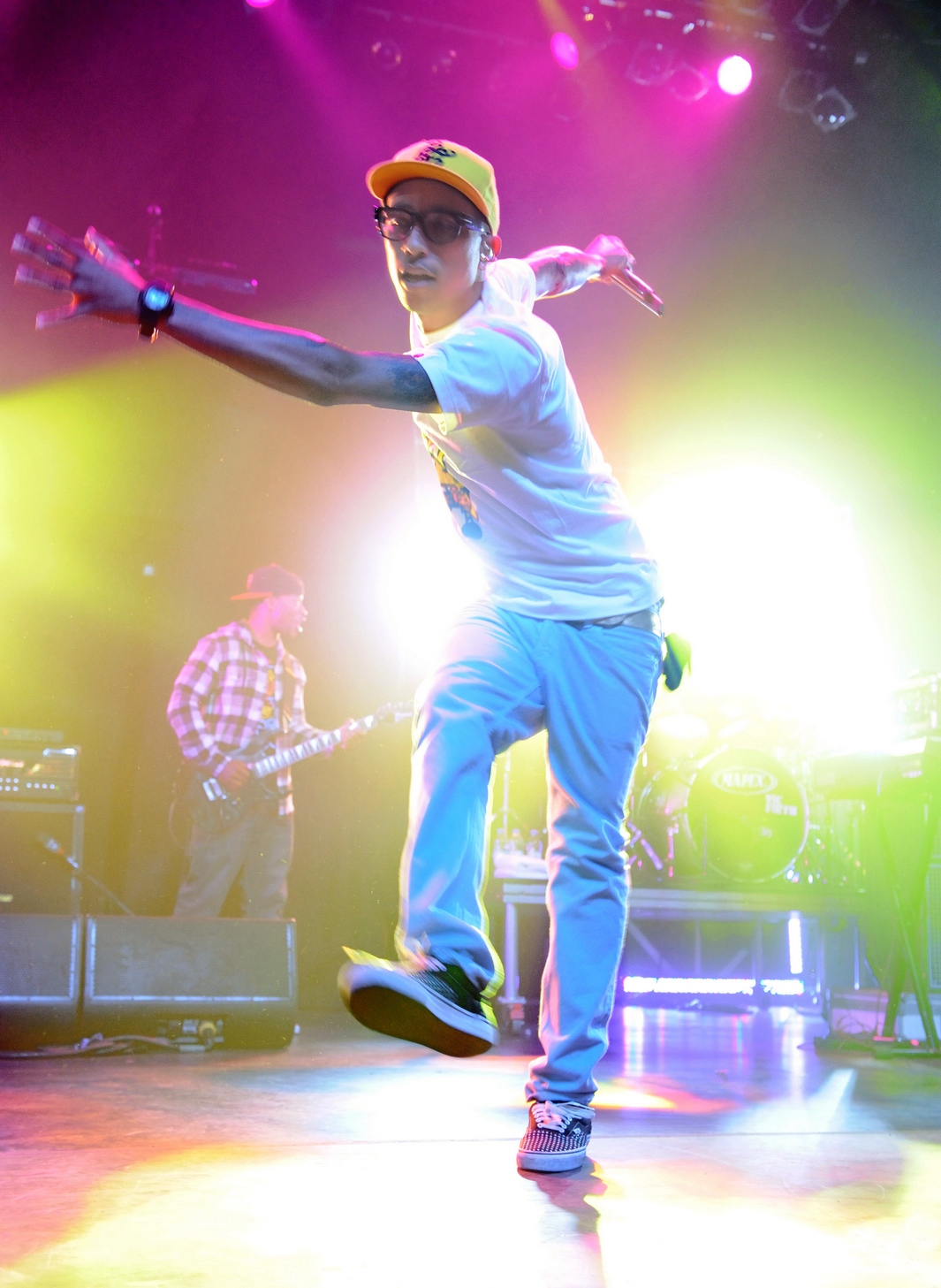 Pharrell Williams performing on September 30, 2008, in Montreal.